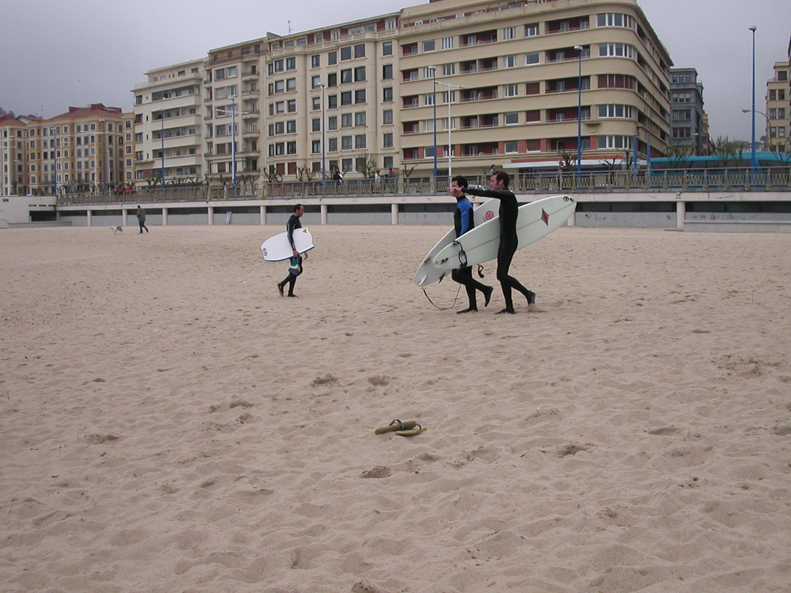 Looking for waves at Zurriola, Donostia.